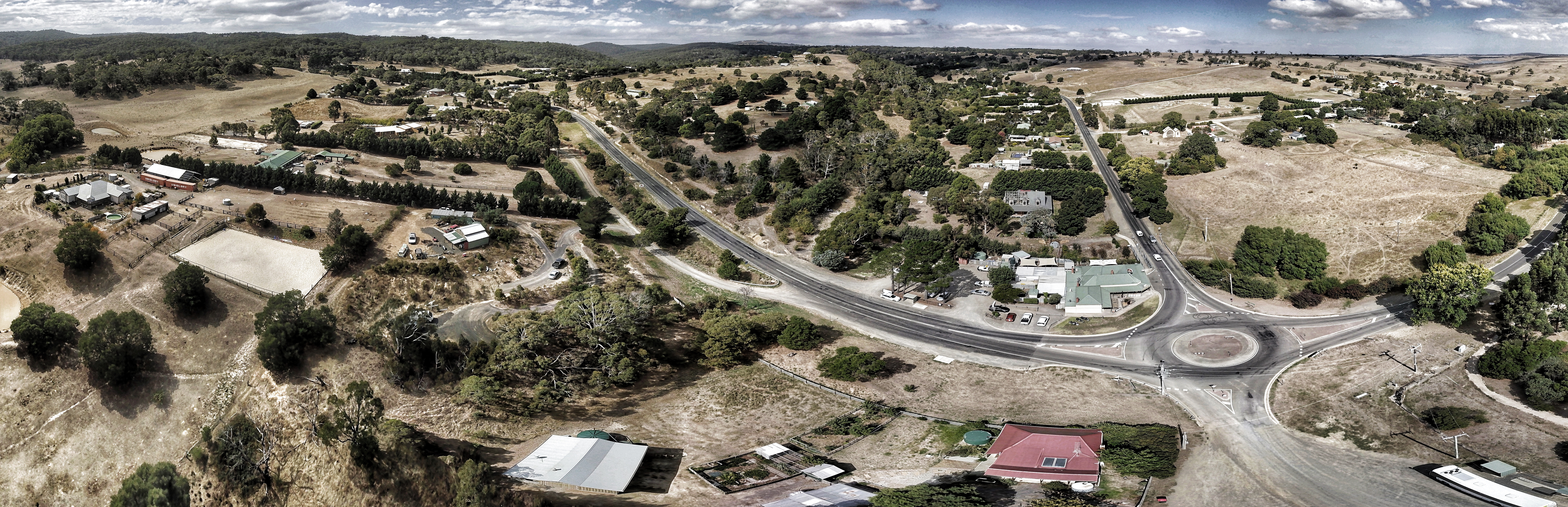 Aerial panorama of Greendale, Victoria. Shot Autumn 2018.